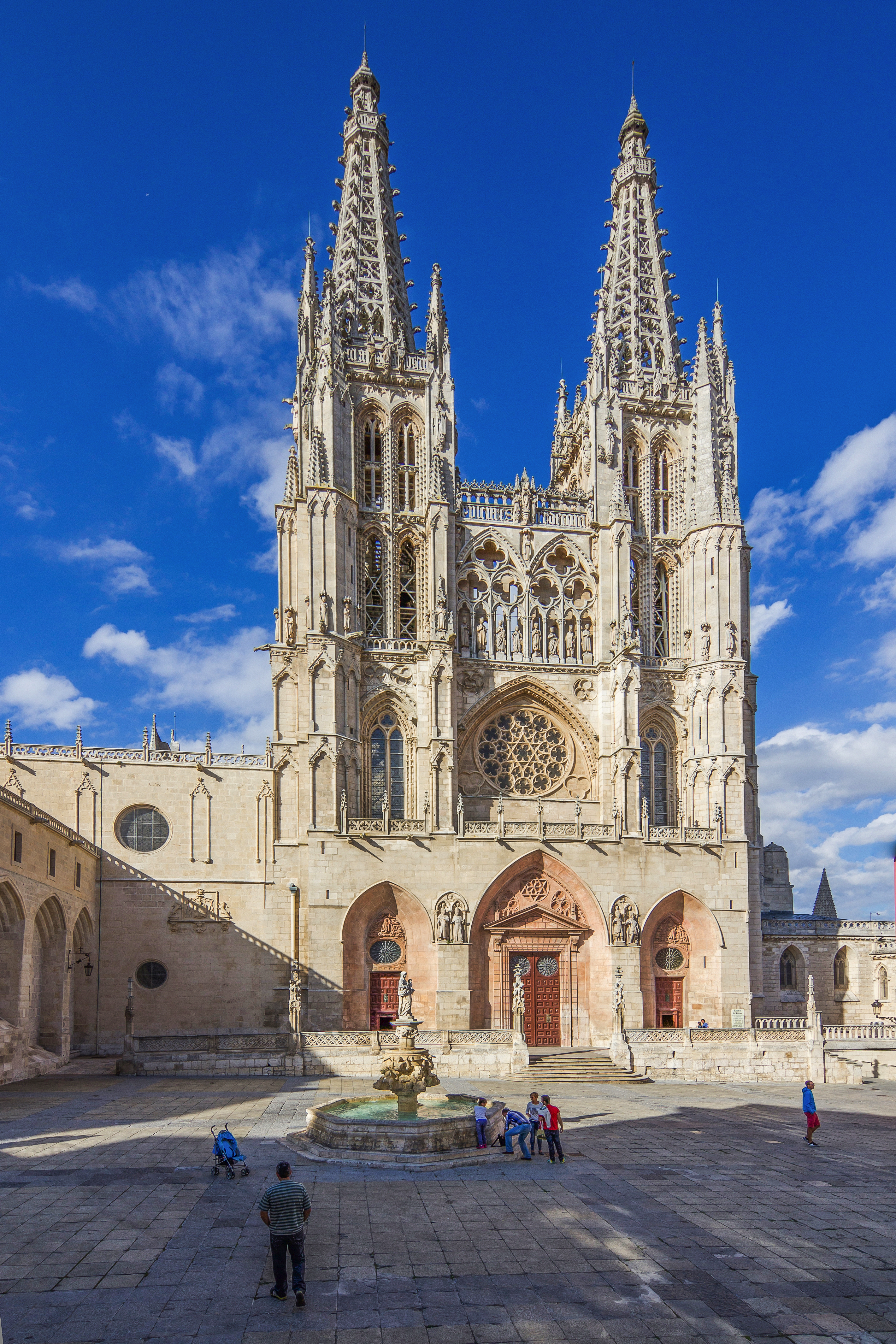 Cathedral of Burgos, Castile and León, Spain.